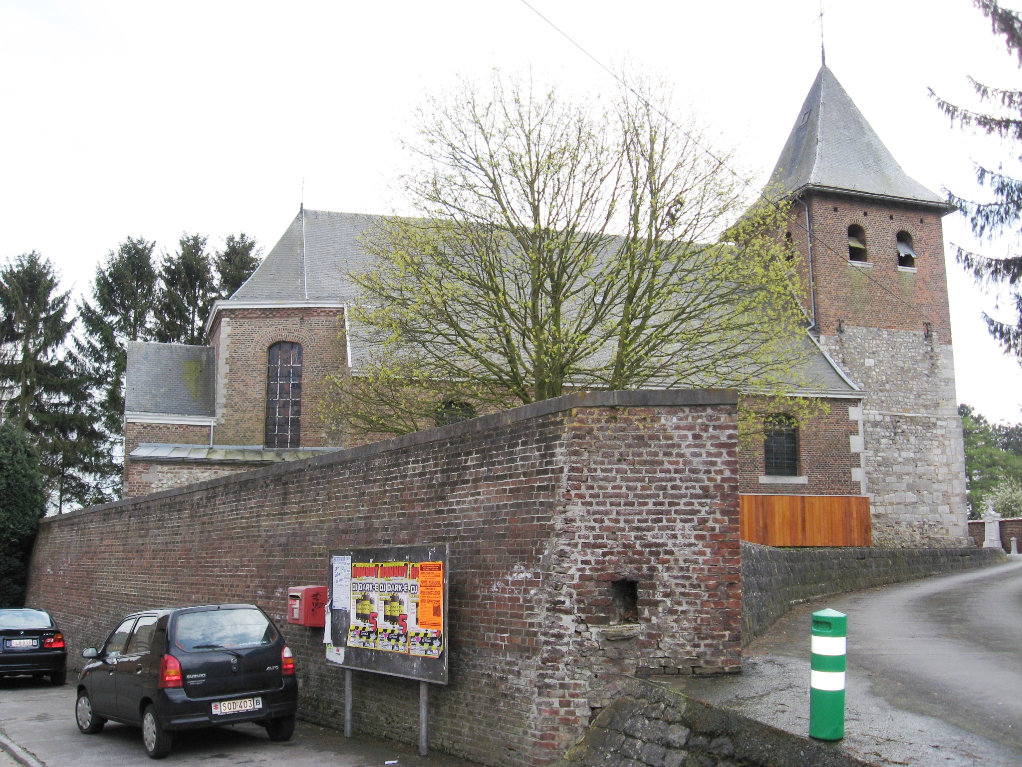 Church of Saint Martin in Fize-le-Marsal, Crisnée, Liège, Belgium